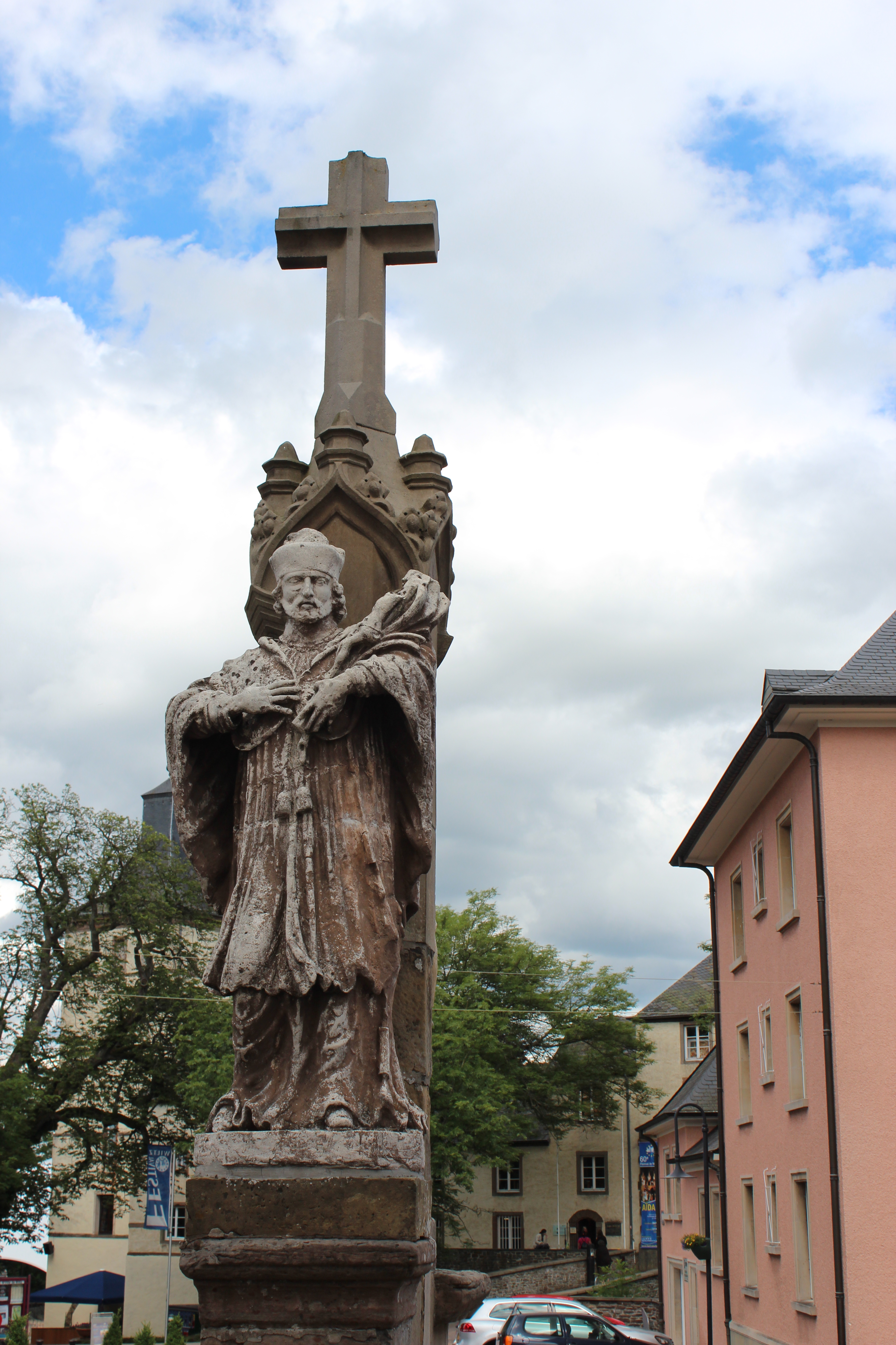 Justice cross (fr: croix de justice) in Wiltz, Luxembourg. Cultural heritage monument since 1937.